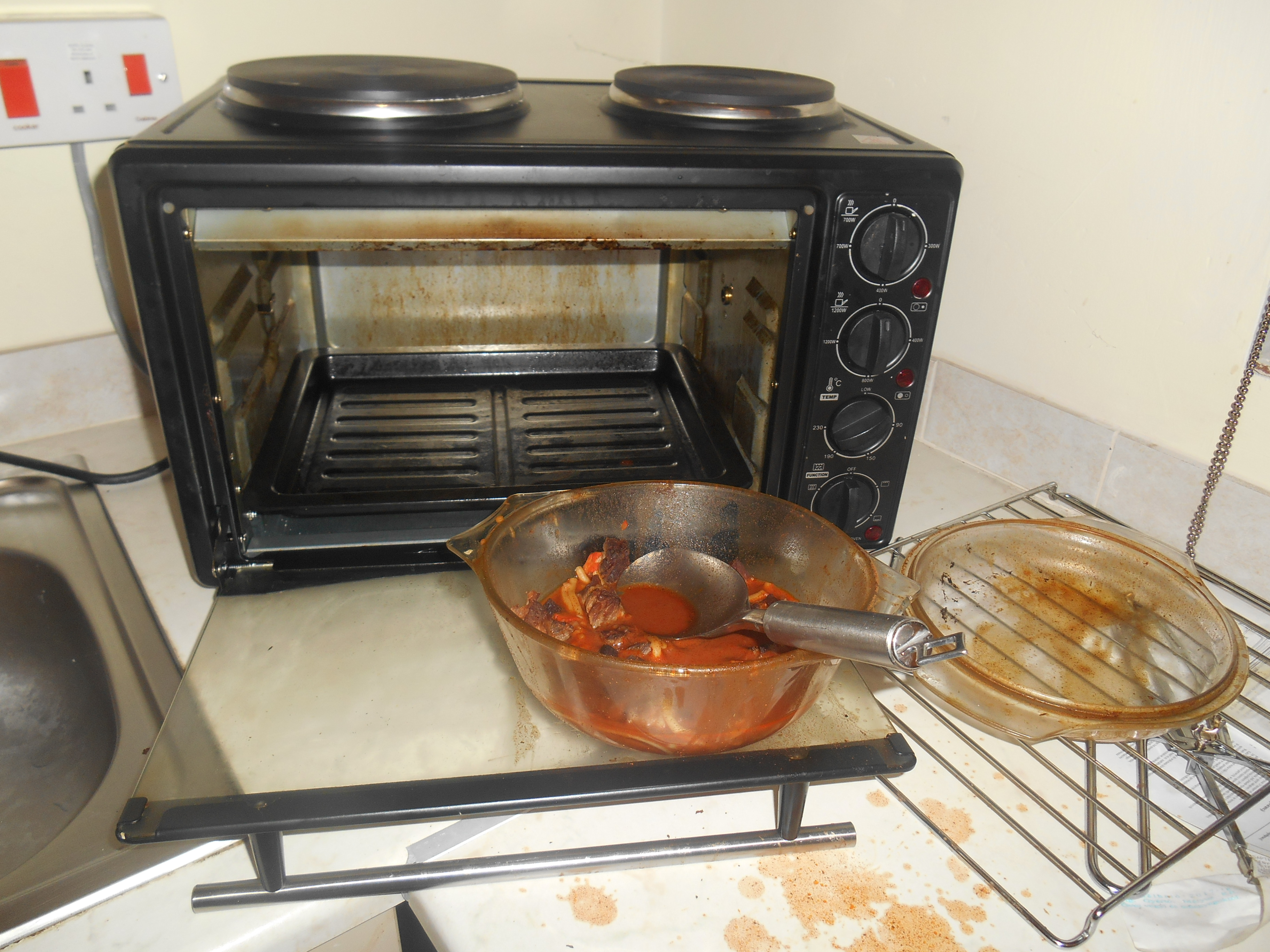 A deliberately dirty for the sake of the pic "Bachelor Griller", a small cooking appliance for use when one hasn't a full cooker (actually I am a bit ashamed of this cos I tend to keep it very clean but I have kinda deliberately dirtied it up for the photo)